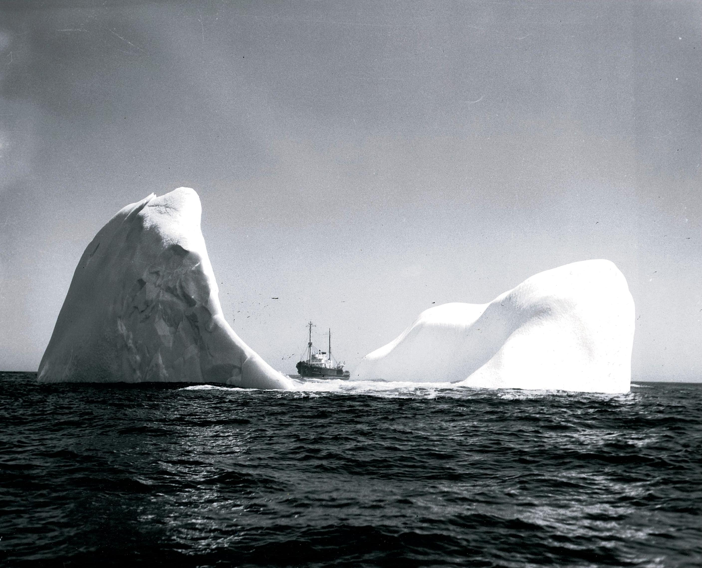 The U.S. Coast Guard cutter USCGC Acushnet (WAT-167) on ice patrol in the North Atlantic, in February 1951.